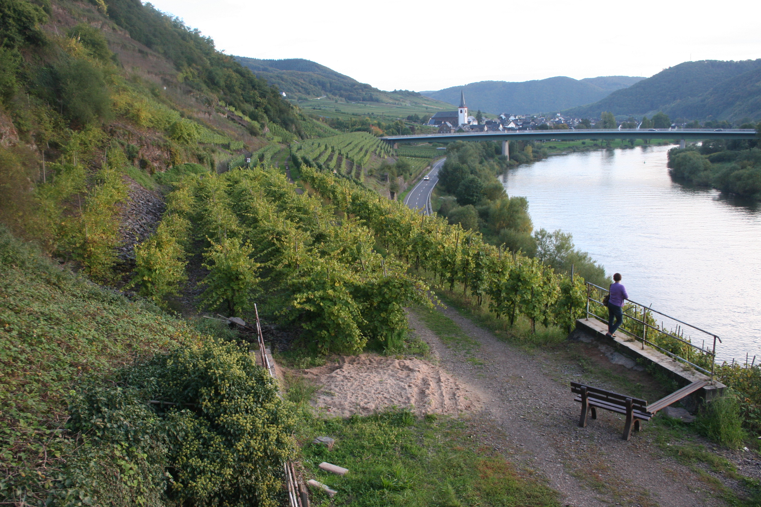 Grapevines on the abandoned railway dam between the Treiser Tunnel and the village of Bruttig on the Mosel river. Remnant of a planned and partially built, but never completed strategic railway.